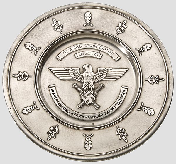 Honor plate for outstanding combat performance in the Luftwaffe (Air Force Aviation Museum in Vienna 2006)